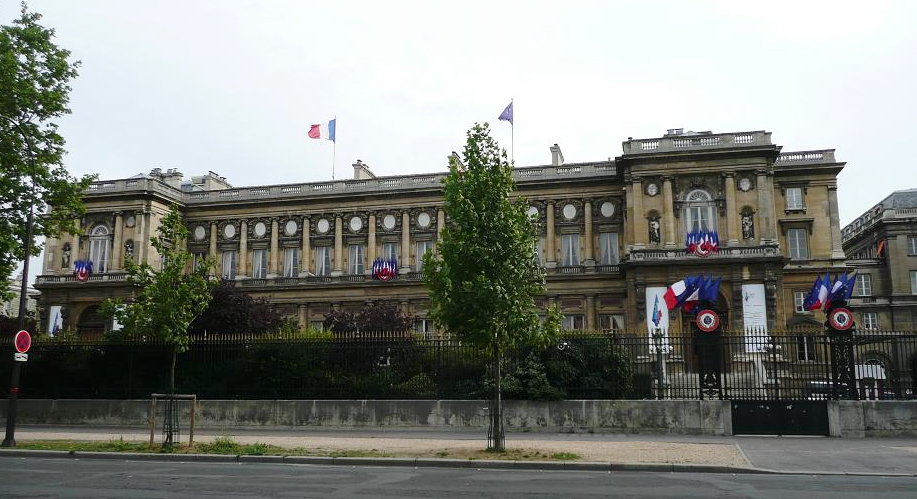 Minister of Foreign Affairs of France, Paris